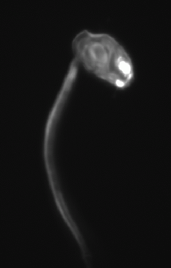 Photo of eYFP expressing Oikopleura dioica taken by Dr. Thomas Clarke. Photo provided with authors permission.